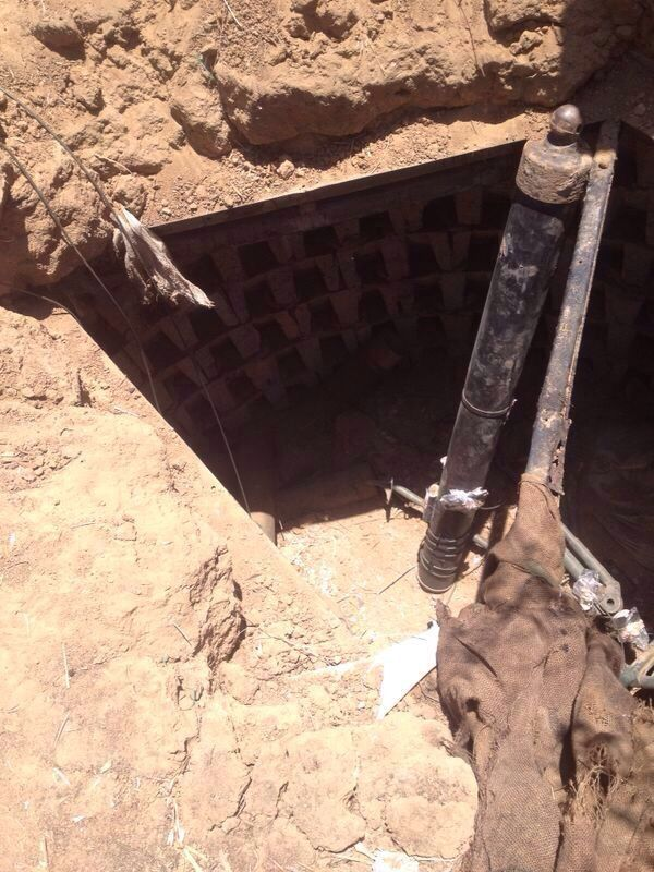 The Paratroopers Brigade soldiers found this terror tunnel in the Gaza strip 17/7/2017 For more updates: The Israel Defense Forces Facebook The Israel Defense Forces blog Follow us on Twitter